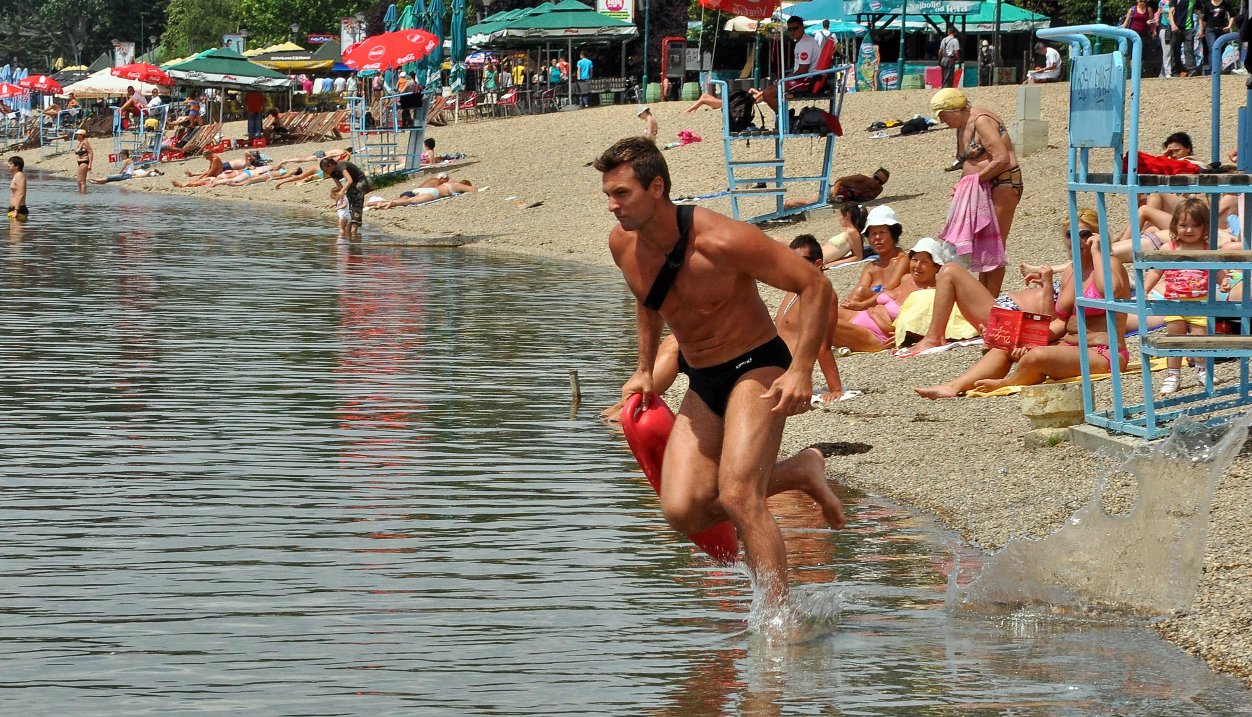 Spasilac